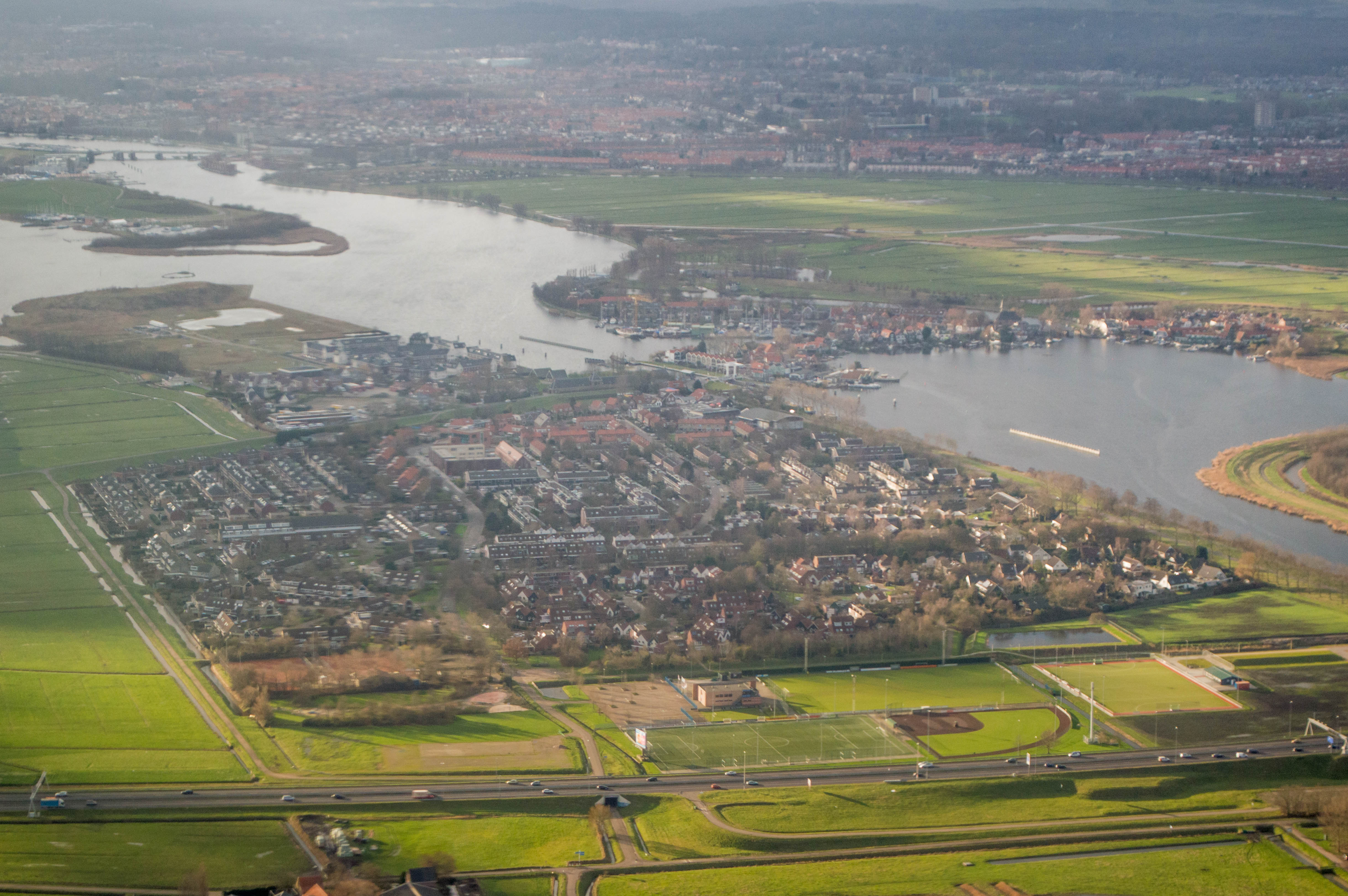 Aerial photograph of the village of Spaarndam, seen from an airplane.